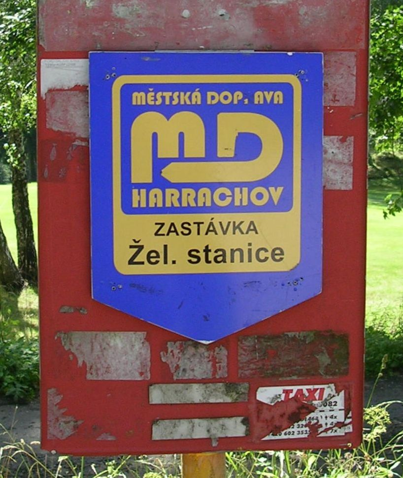 Harrachov-Mýtiny, Semily District, Liberec Region. Bus stop sign near the Harrachov train station.